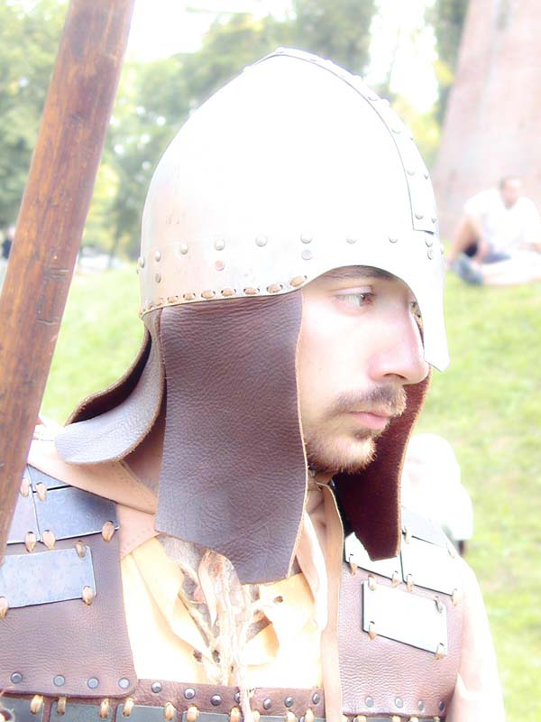 Leather pteruges on byzantine helm